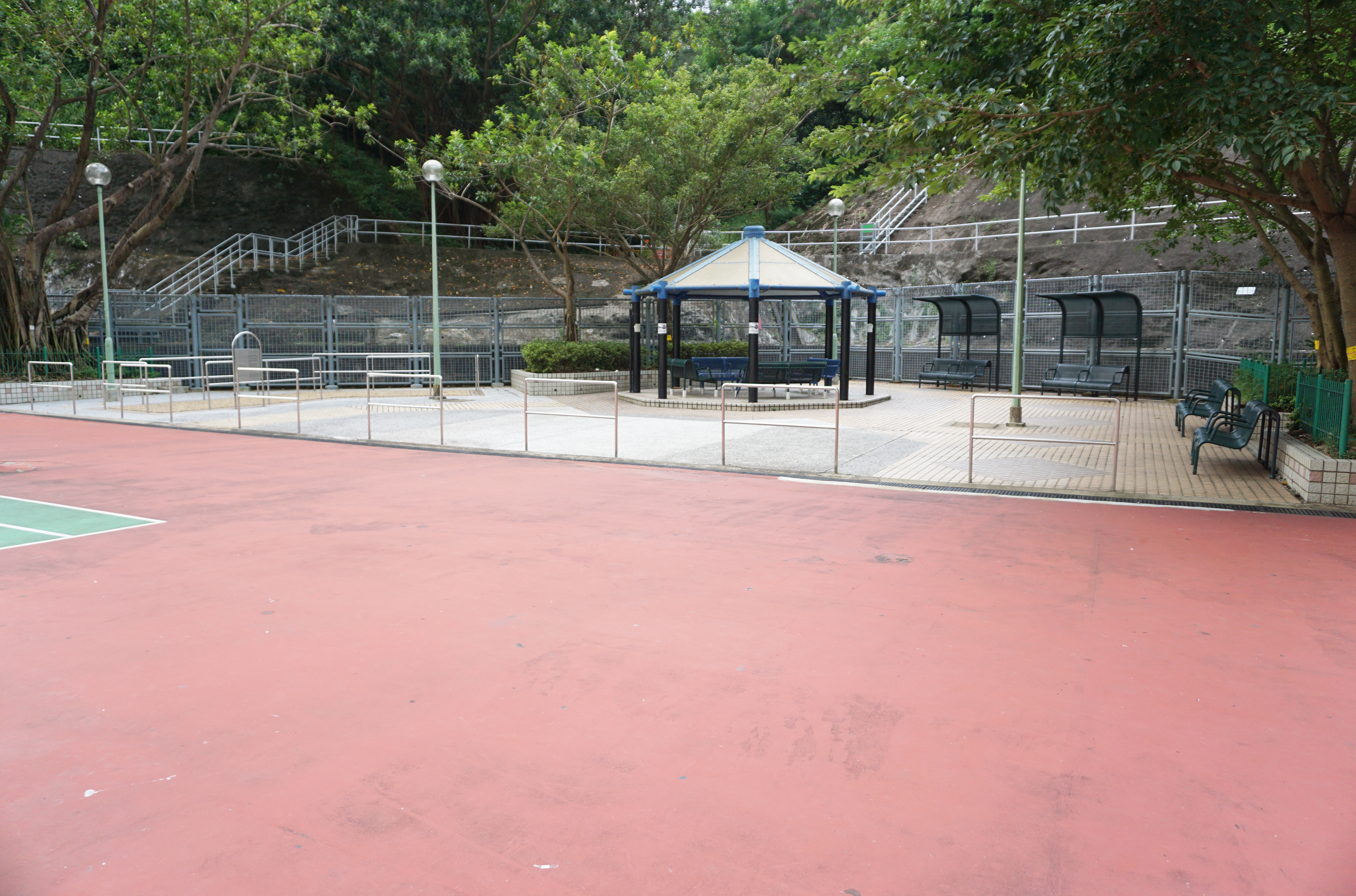 Lei Muk Shue Estate in Wo Yi Hop, Hong Kong.